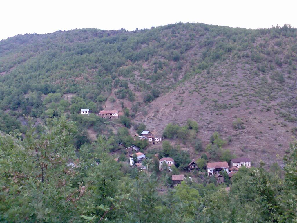 Village of Upper and Lower Zrkle, Poreche region, Republic of Macedonia